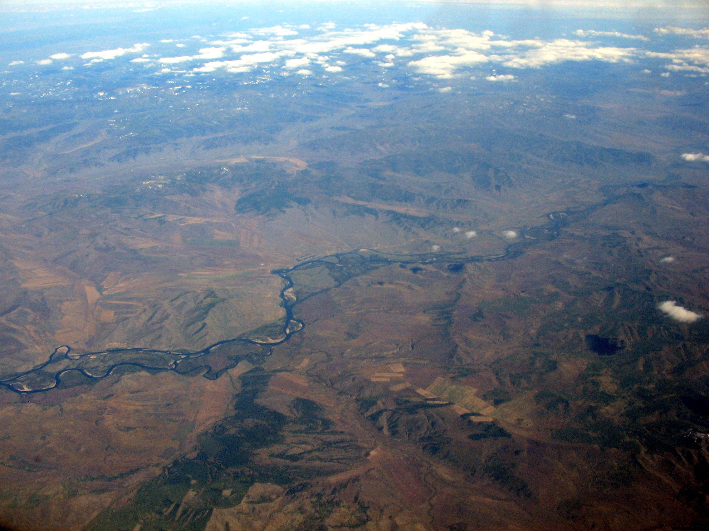 The Selenge River in Mongolia seen from the air.